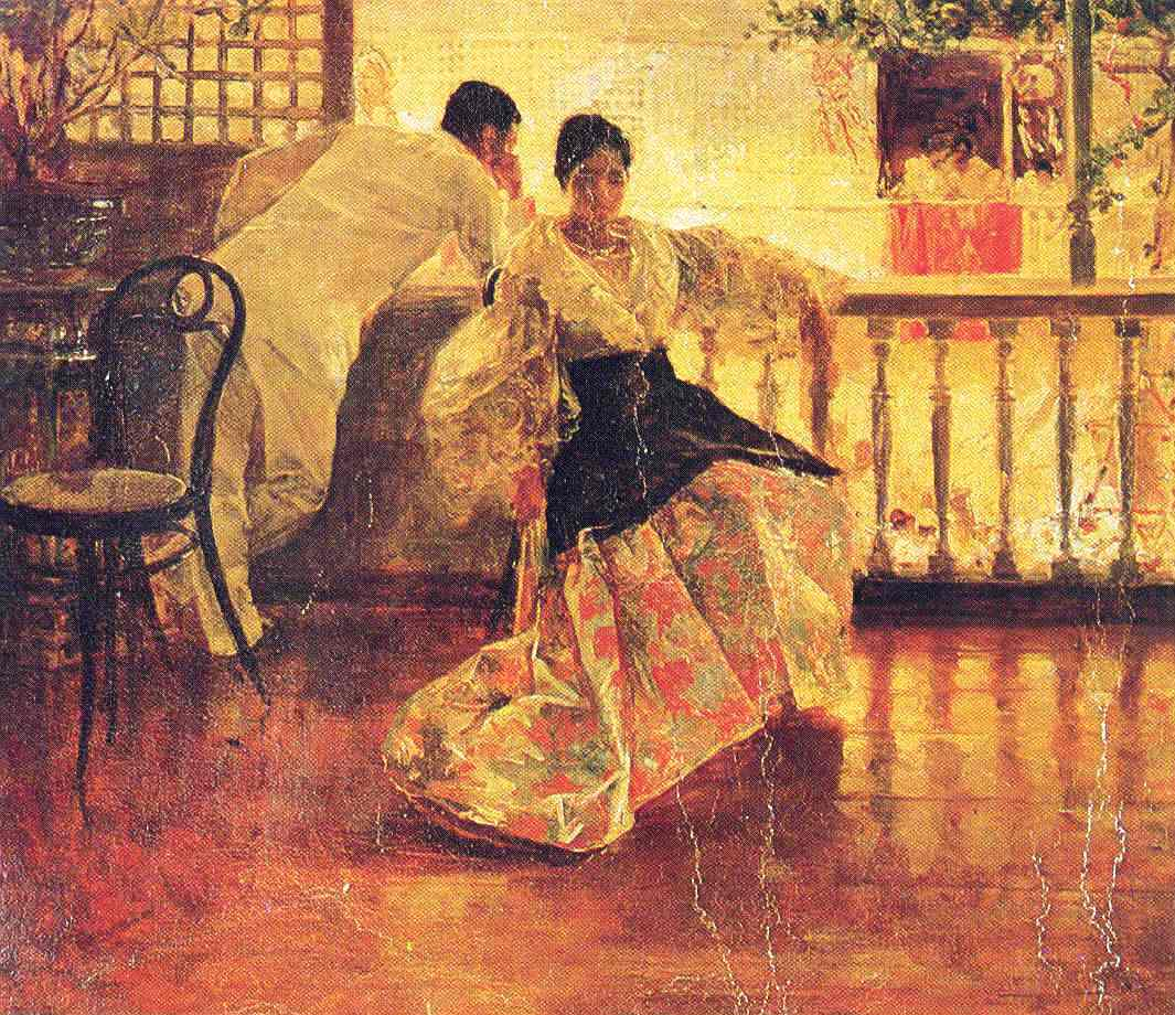 Tampuhan (